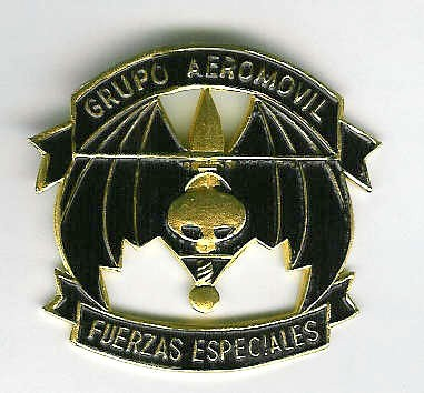 I, the copyright holder of this work, hereby release it into the public domain. This applies worldwide. In case this is not legally possible, I grant any entity the right to use this work for any purpose, without any conditions, unless such conditions are required by law [1]